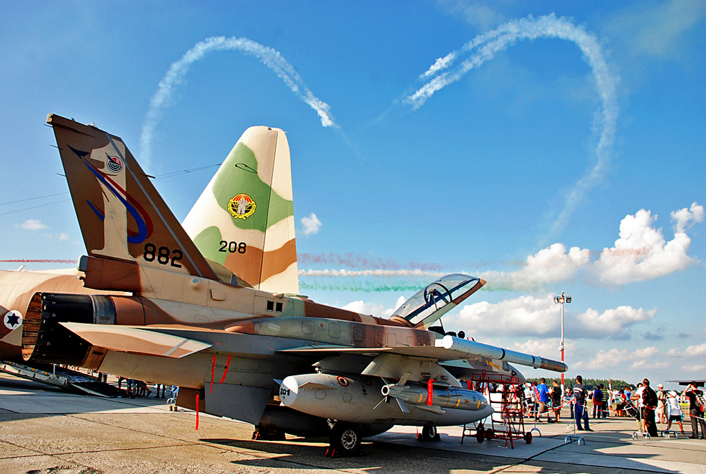 August 8, 2010 IAF aircraft 'The One' and 'The Elephants' squadrons at the Hungarian Air Show in Kecskemét. In the background a heart is painted in trails of other foreign aircraft. Photo by Yael Harari, Israeli Air Force